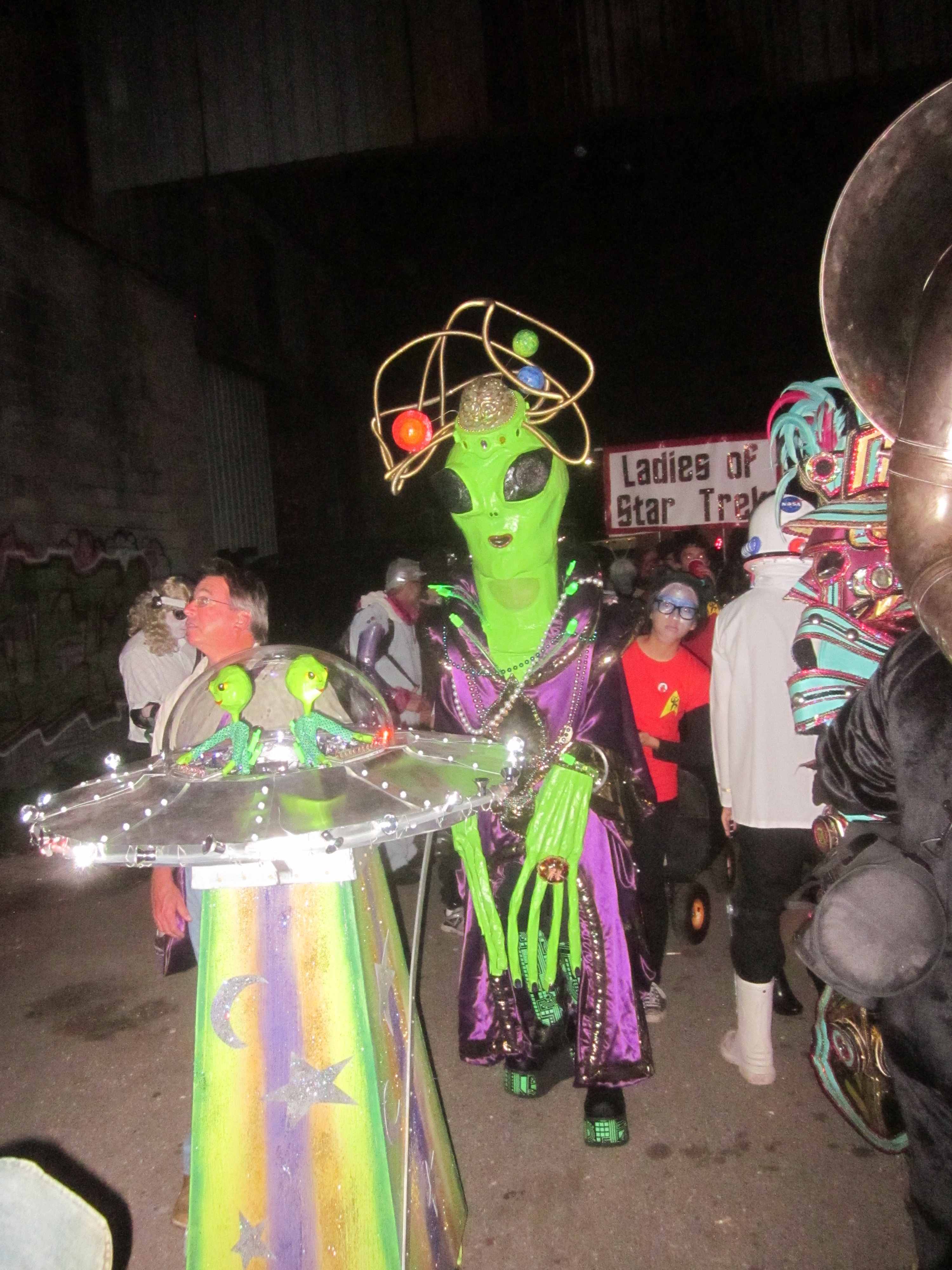 2013 "Krewe of Chewbacchus" Carnival parade, New Orleans. Lined up on Architect Street before start of parade.